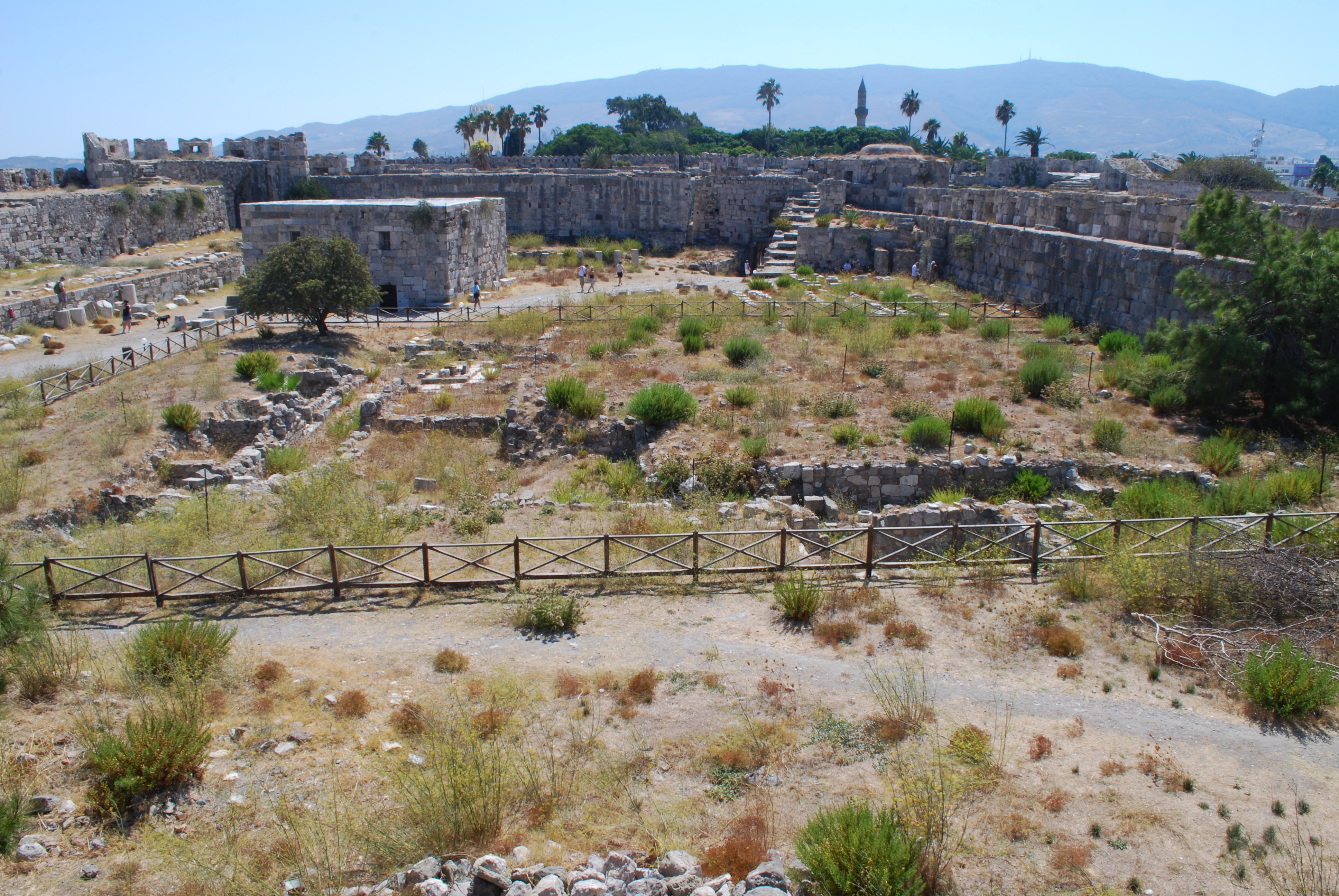 Inside of Neratzia Castle, Isle of Cos, Greece